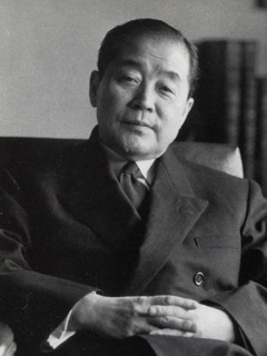 Viscount Keizō Shibusawa (1896–1963)